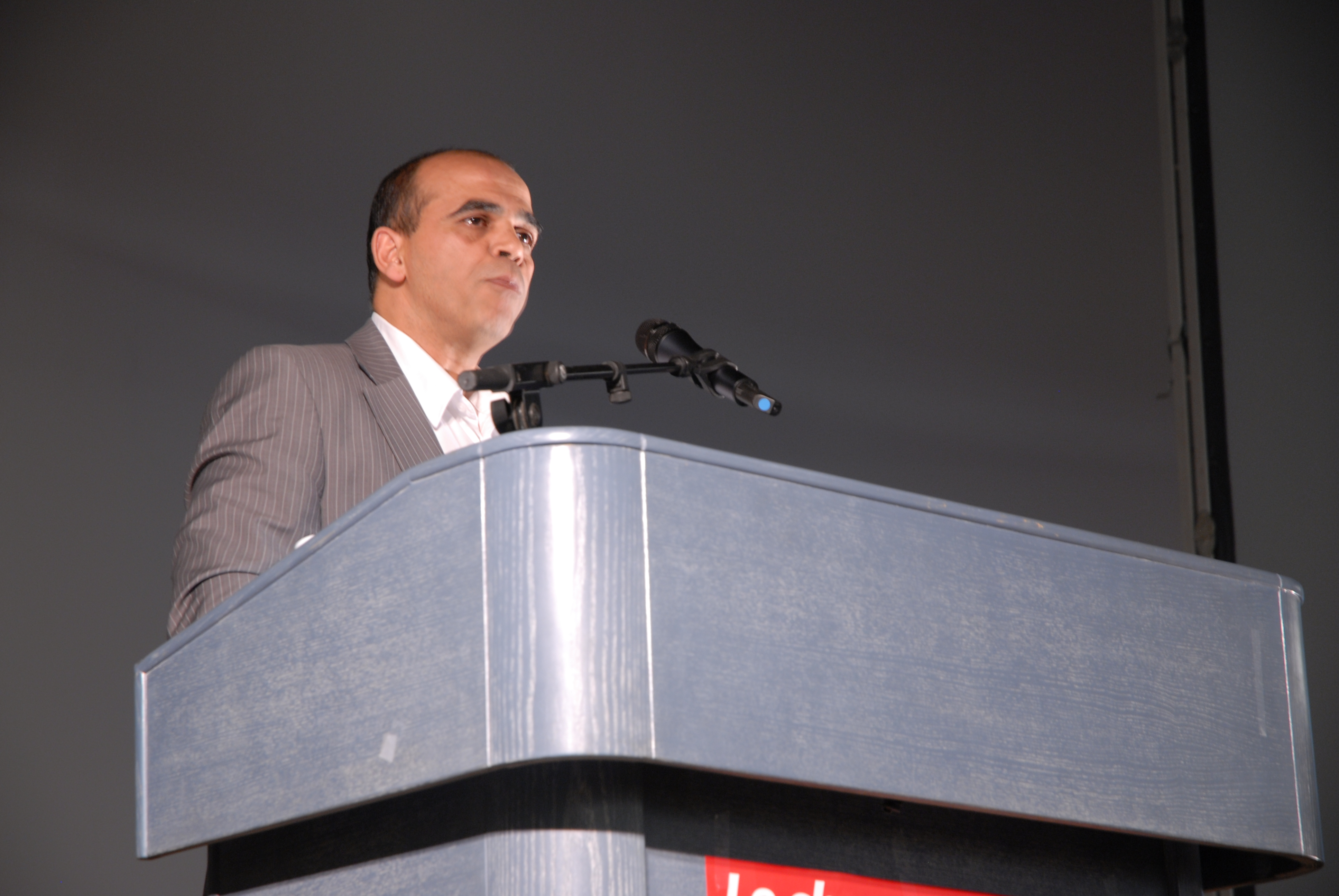 Kader Arif (French politician) during Dominique Strauss-Kahn's meeting in Toulouse on April, 13th 2007 where he was promoting Ségolène Royal's candidacy for the 2007 presidential election.